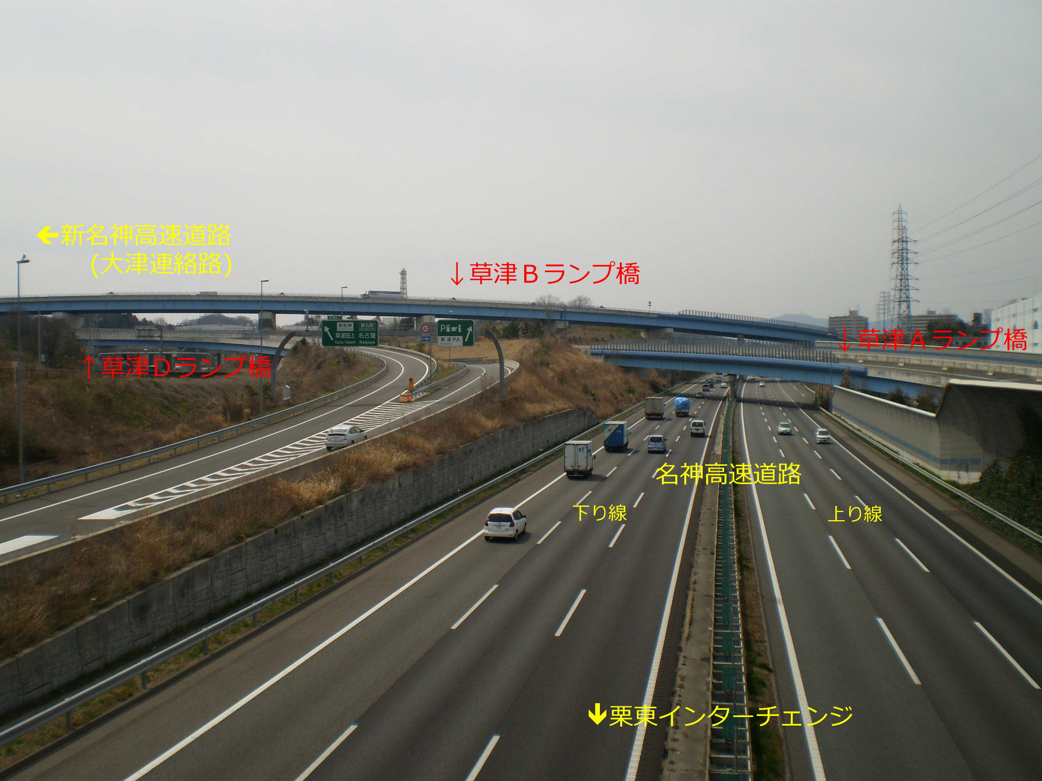 Lamp bridges of the Kusatsu Junction at Nojihigashi-2chome, Kusatsu City, Shiga Prefecture, Japan